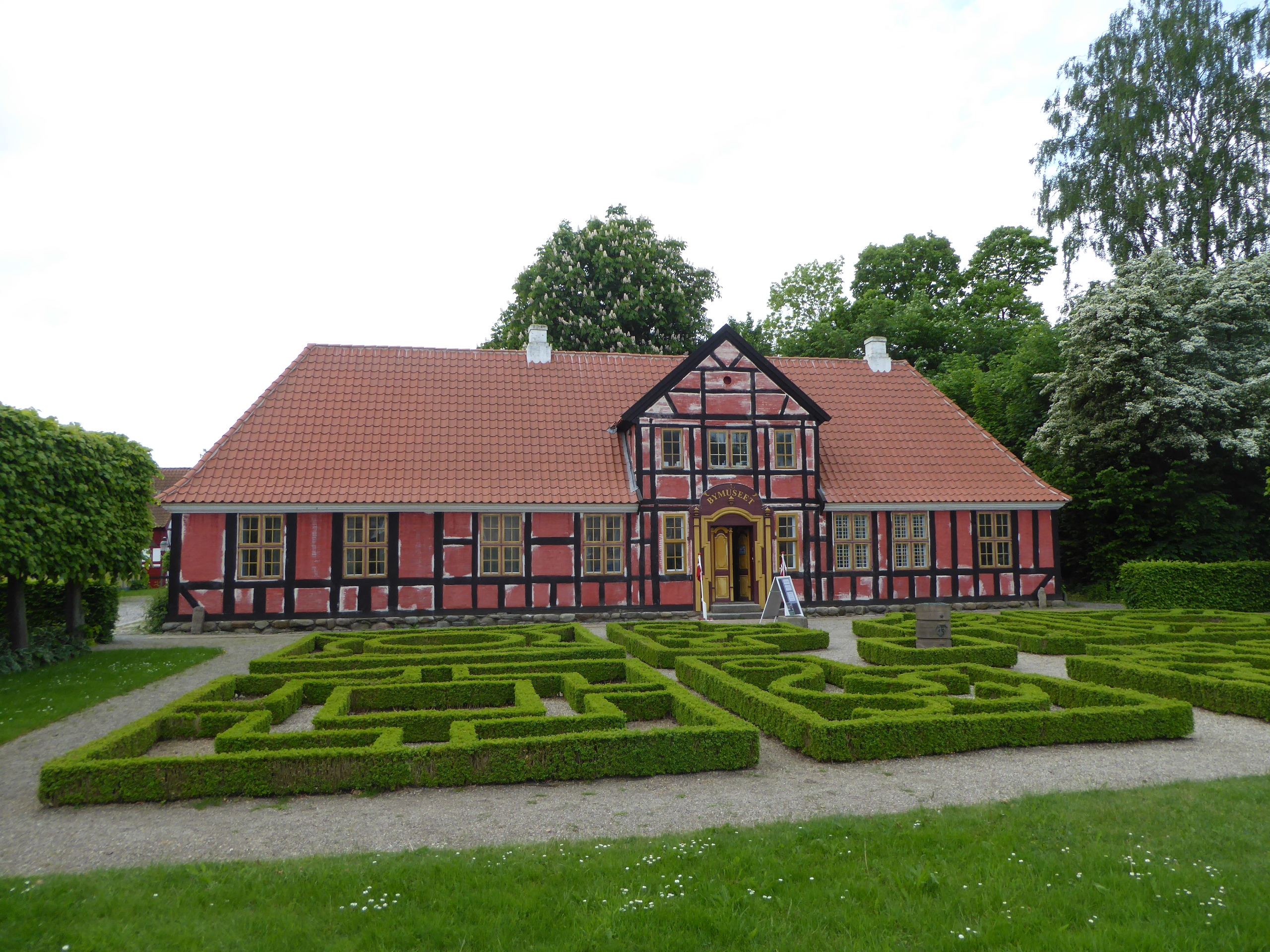 The main building of the city museum of Fredericia in Denmark.